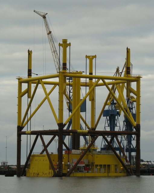 Offshore transformer, Belfast 7,500 tonne offshore transformer platform at the Outfitting & Ship Repair Wharf in Belfast docks. The entire structure is to be known as transformer 'Bard 1'. The steel superstructure of the transformer - which is actually the subsea foundation, or substructure (jacket) - had just been completed in the building dock of Harland and Wolff, where it was attached to the 'yellow box' at the bottom - actually the Latvian built transformer which also houses a canteen, health clinic and sleeping quarters for 30 people. Earlier in the day the entire structure had been floated out from the building dock to this position where it will sit waiting for the arrival of tugboats to tow to its final destination - around 90 miles north of the German island of Borkum in the North Sea. Once there the self installing transformer will lower the substructure onto the seabed and lift itself out of the water. Connected to 60 offshore wind turbines, it will produce around 400mW of electricity by increasing the voltage of the alternating current from the windfarms from 33kV to 155kV before the power is transferred to a neighbouring converter platform and sent back to Germany for connection to the electricity network. See also 8465806 for some related images of the construction.